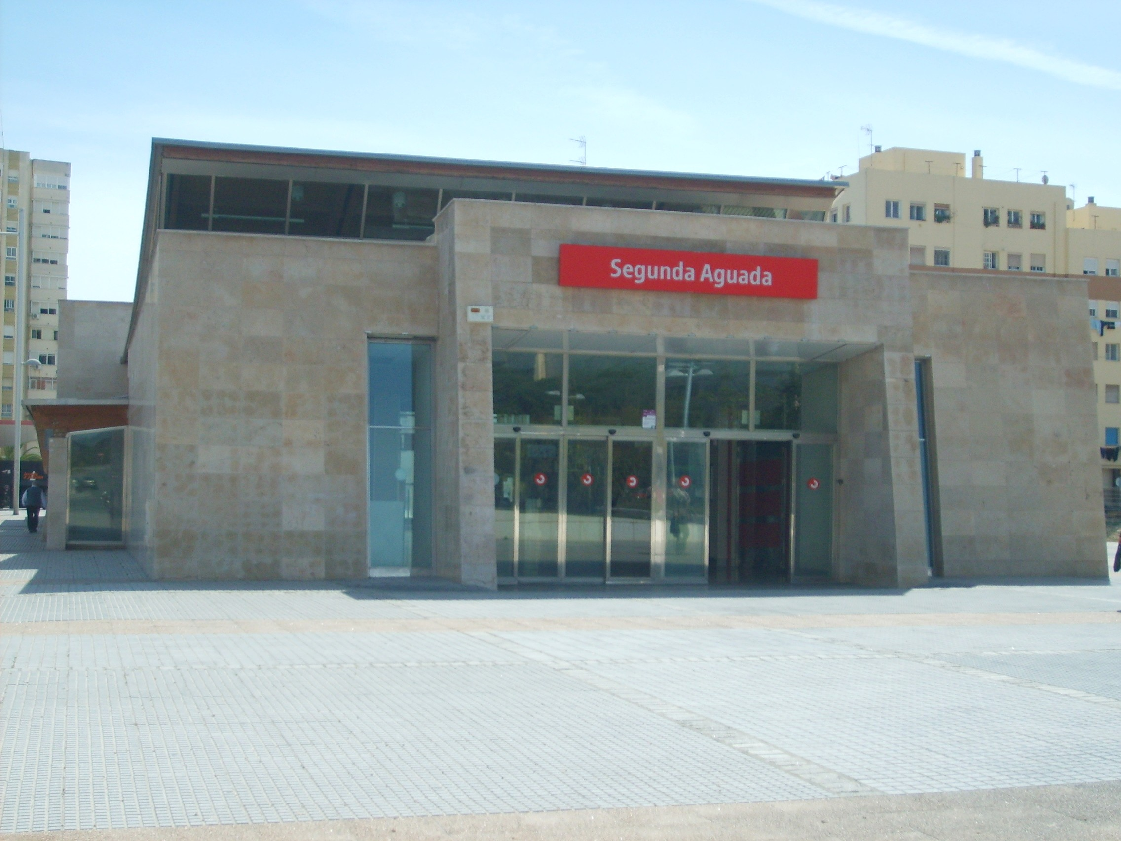 Entry door to "Segunda Aguada" train station, in Cádiz (Andalusia, Spain).